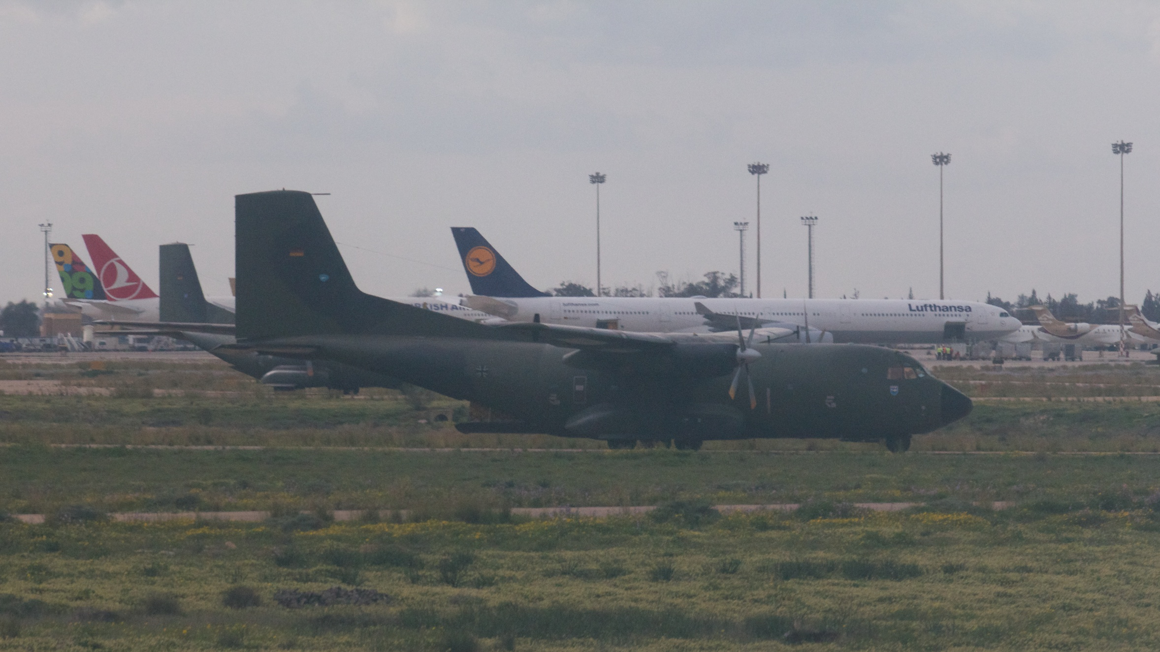 Two German Air Force C-160 at Tripoli International Airport on February 22, 2011. Commercial airplanes can be seen in the background.